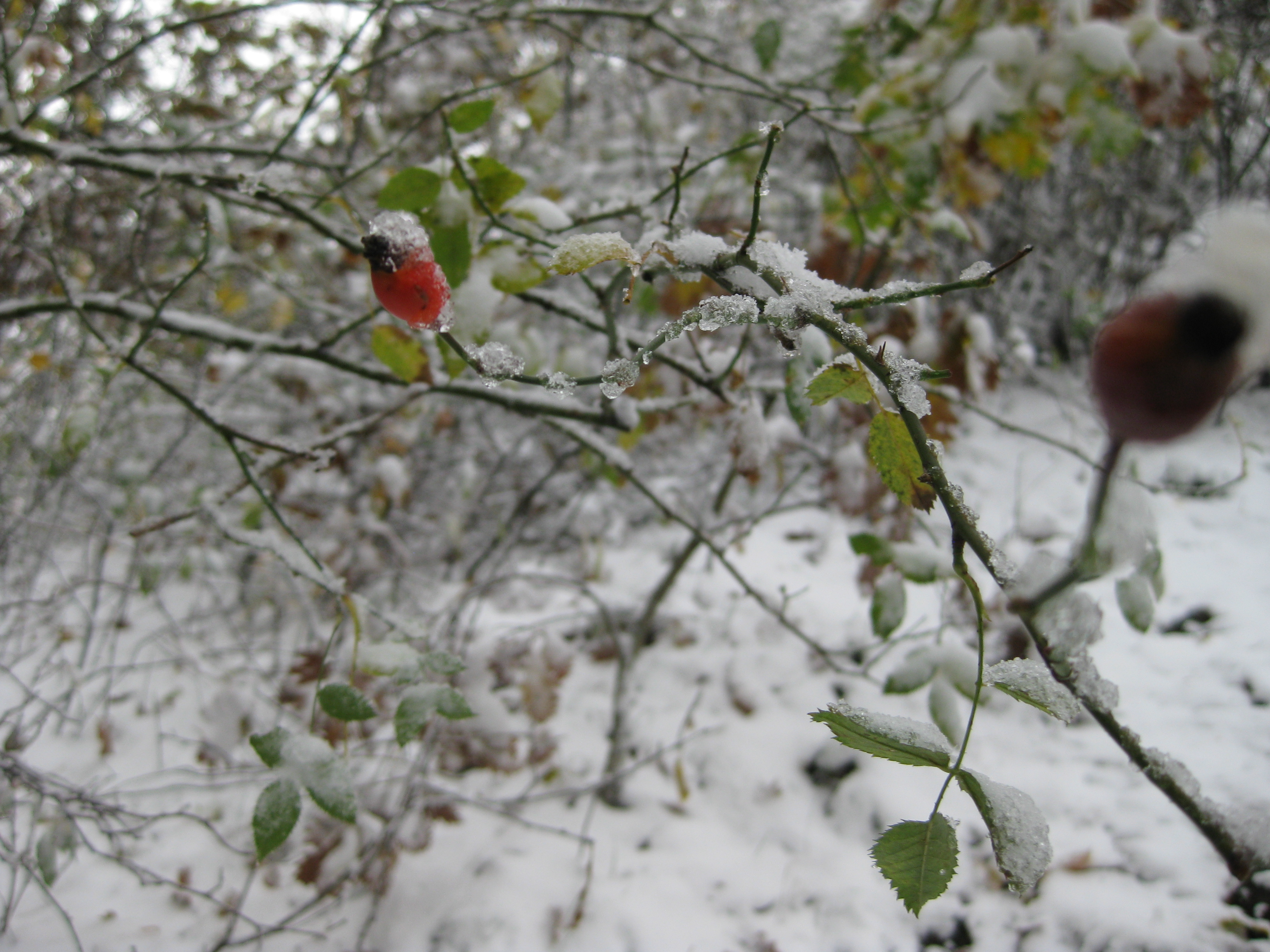 Natural monument Calvary in Motol in Prague, Czech Republic